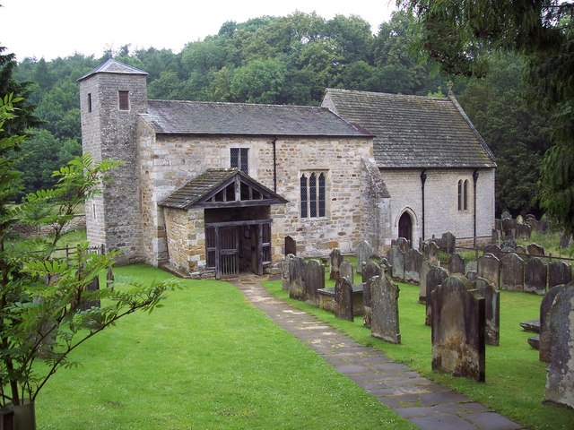 St Gregory's Minster, near Kirkbymoorside, Vale of Pickering, North Yorkshire, England